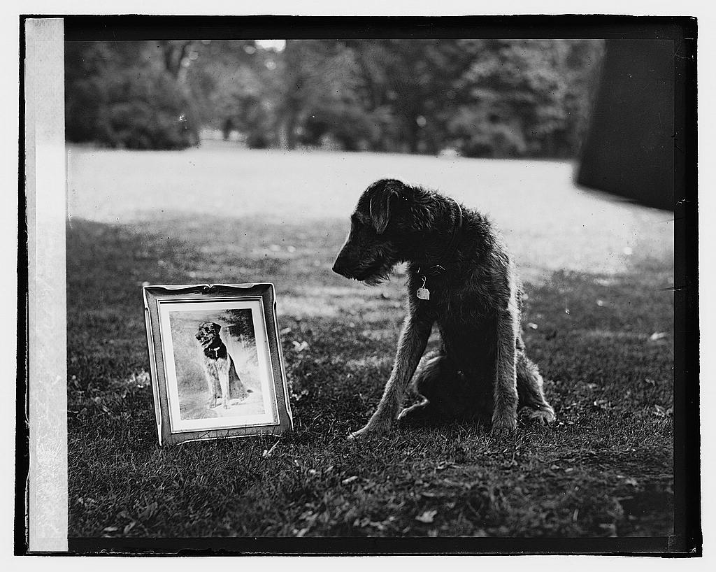 Laddie Boy and his portrait in silver, a radiotone presented to Mrs. Harding today by Alfred H. Retler.